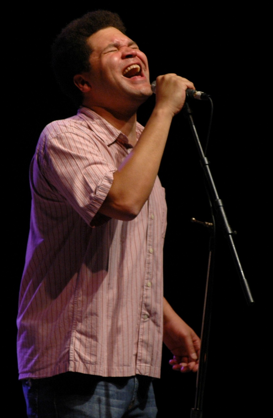 Mike Mattison of Scrapomatic performing at Mizner Park.